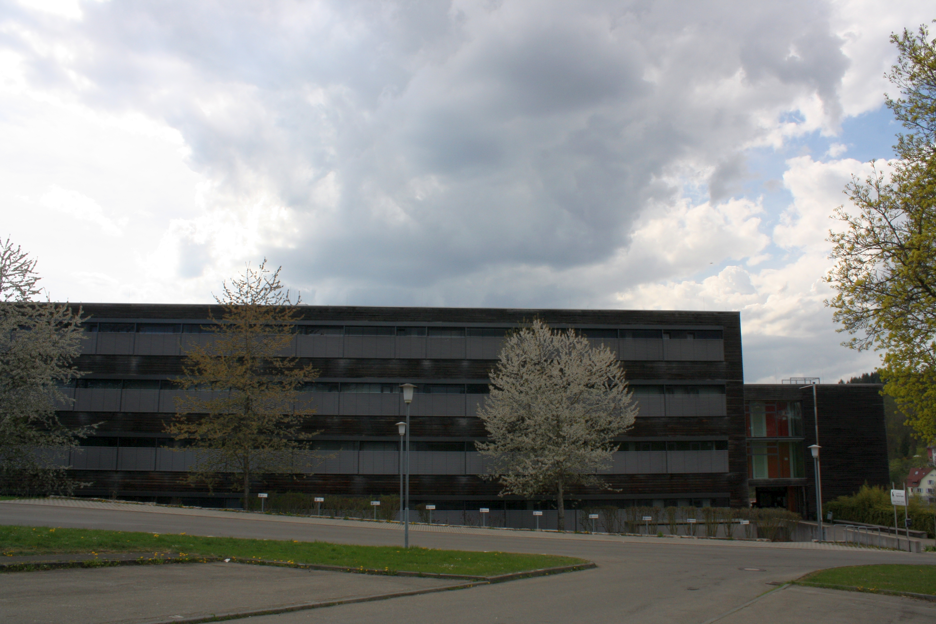 Ludwig-Erhard-School, Sigmaringen, Germany